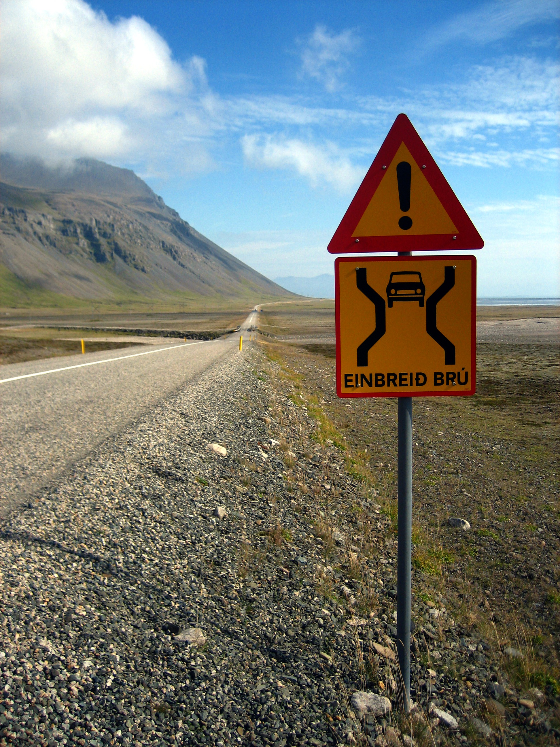 road sign "einbreið brú" (one-lane bridge) on the Ring Road, Iceland, near Höfn